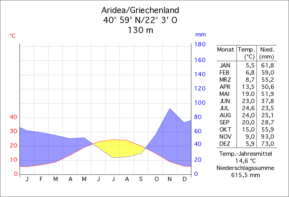 climate chart in the format by Walther and Lieth, metric, °Celsius and millimeters